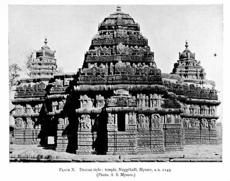 Scan of a page from the book "A history of fine art in India and Ceylon, from the earliest times to the present day (1911)" by Vinecent Arthur Smith, published in 1911.